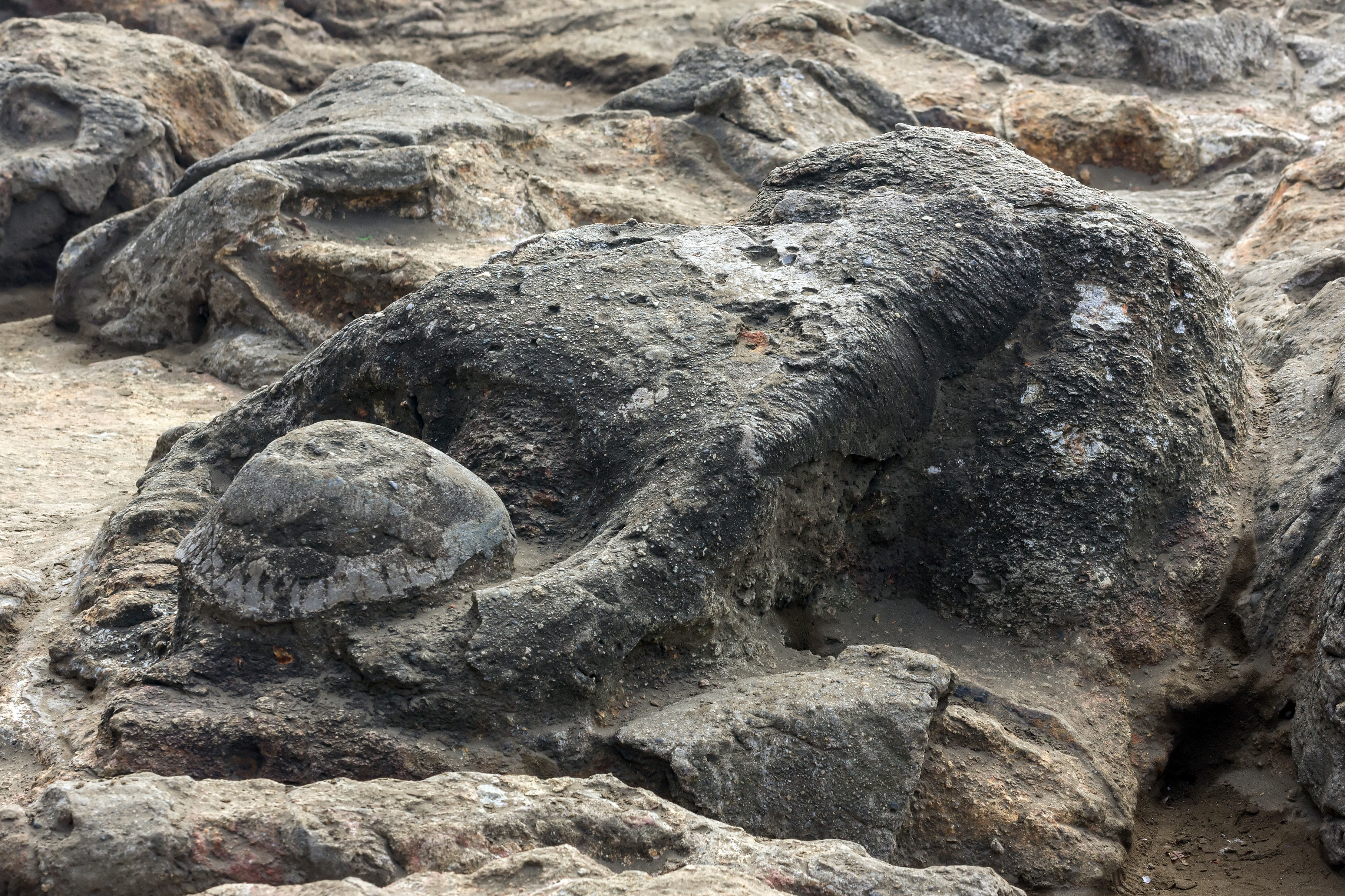 Batu Malin Kundang, Air Manis Beach, Padang 2017-02-14